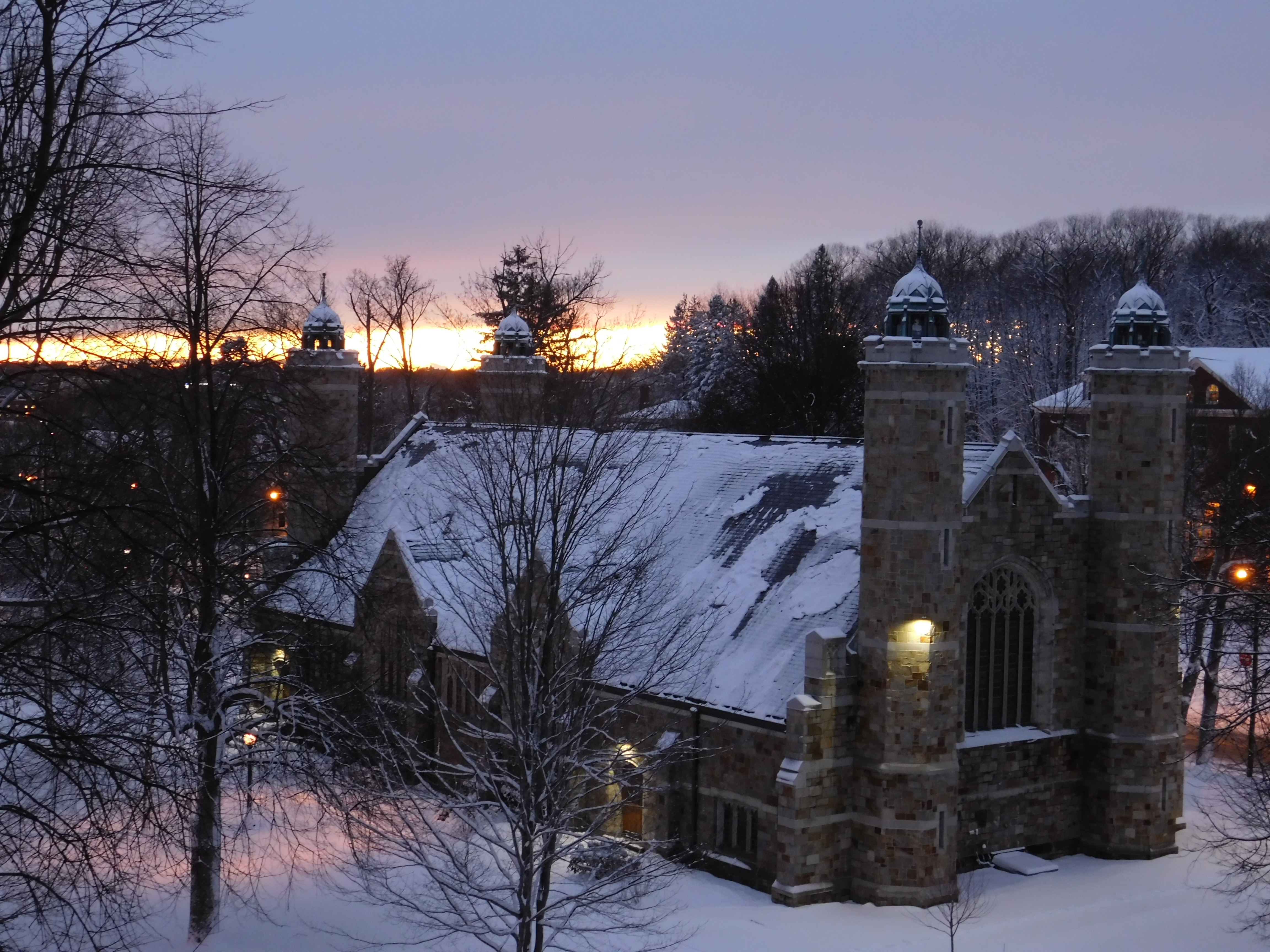 MultiFaith Chapel of Bates College